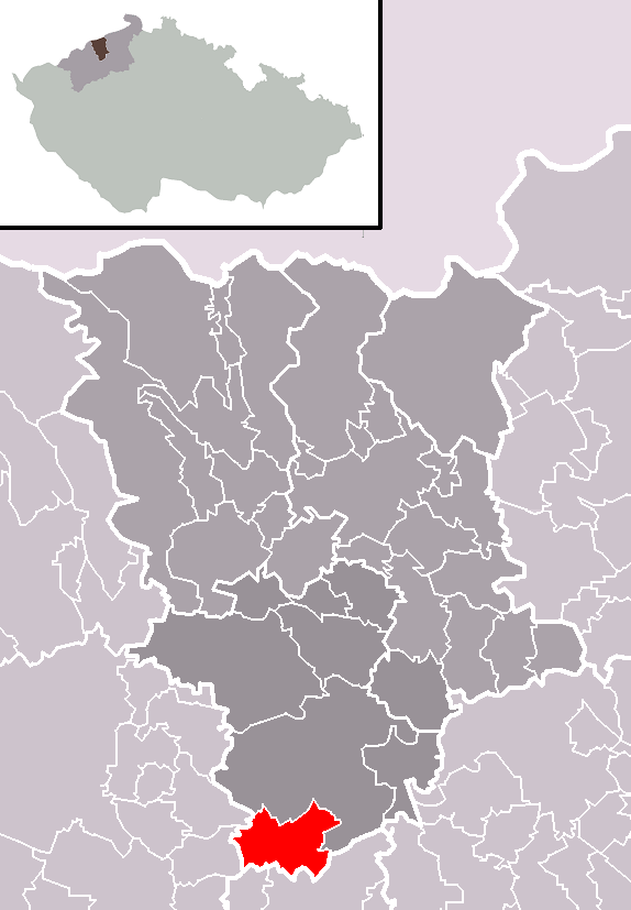 Location of Měrunice municipality within Teplice District and administrative area of Bílina as a Municipality with Extended Competence.